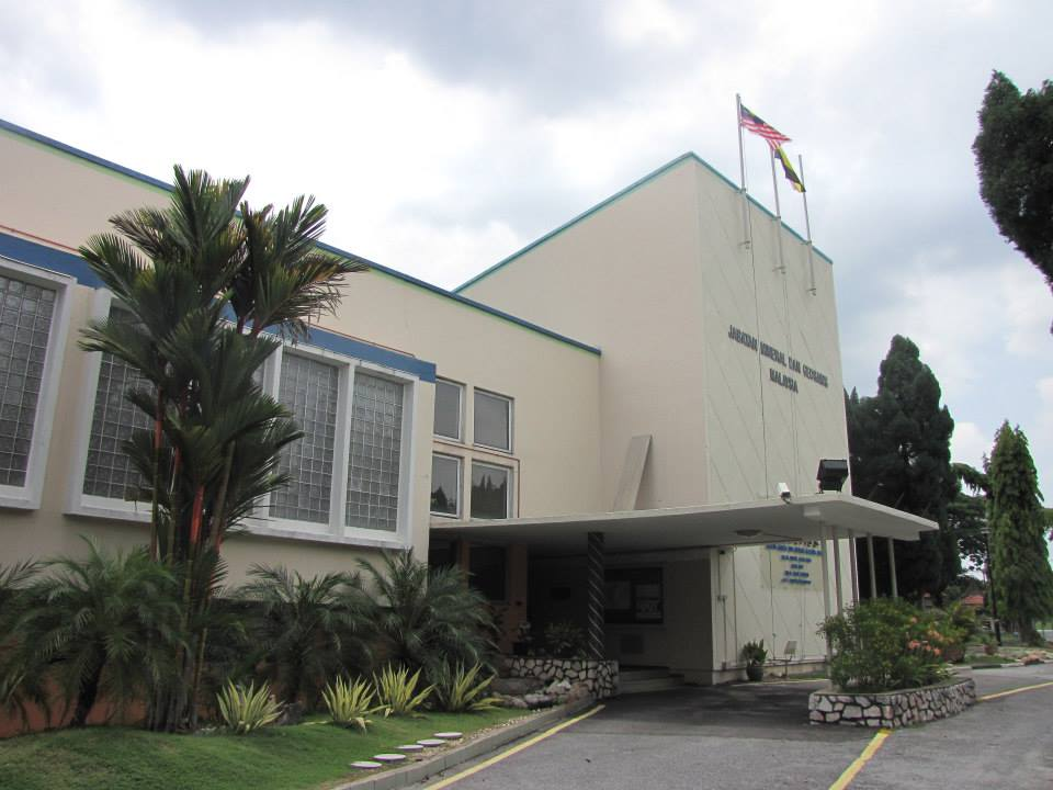 Front view of Geological Survey Building, Ipoh.